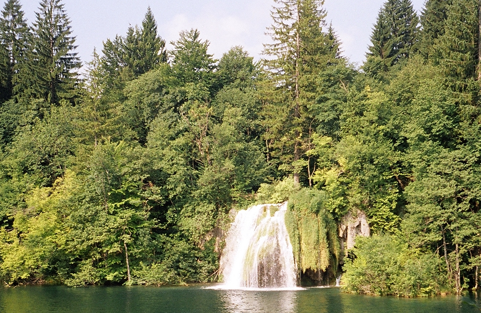 Plitvice national park